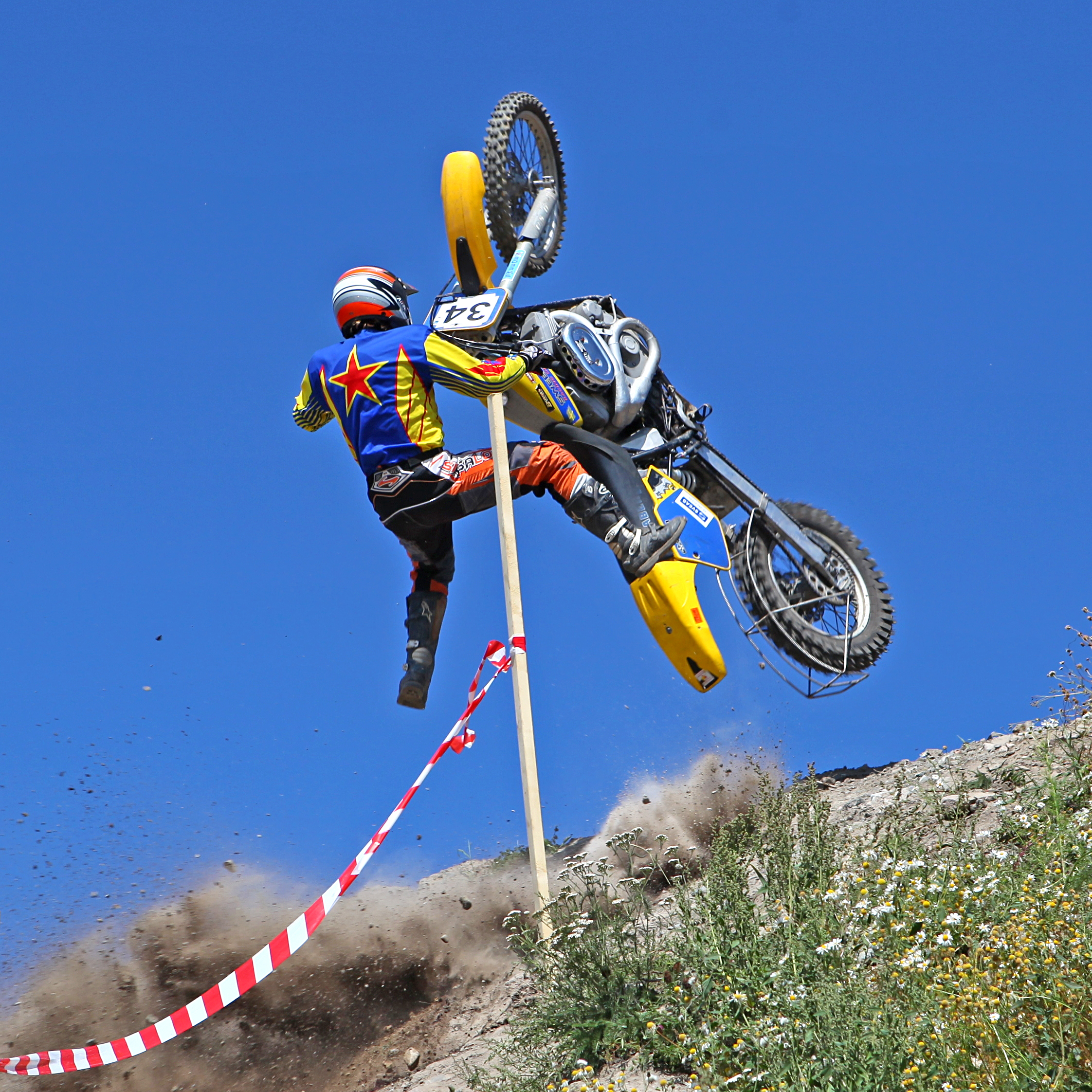 Motorcycle hill climb, Arninge, Sweden 2009